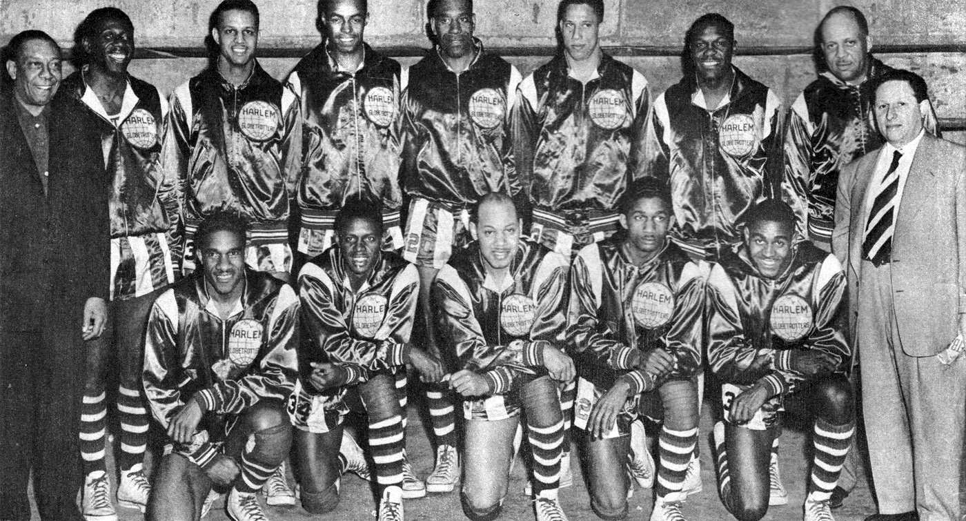 Original caption: "At the conclusion of their regular schedule last season, the mighty Harlem Globetrotters embarked on one of the most pretentious undertakings ever presented in basketball—an 18-game transcontinental series played in 17 cities against a highly-formidable array of College All-Americans. The Globetrotters came through with colors flying, winning 11 games to 7, and entertaining fans from coast to coast with their dazzling ball-handling, passing and showmanship. Here are the World Series Globetrotters with Owner-Coach Abe Saperstein (right) and Team Secretary W. S. Welch (left)."